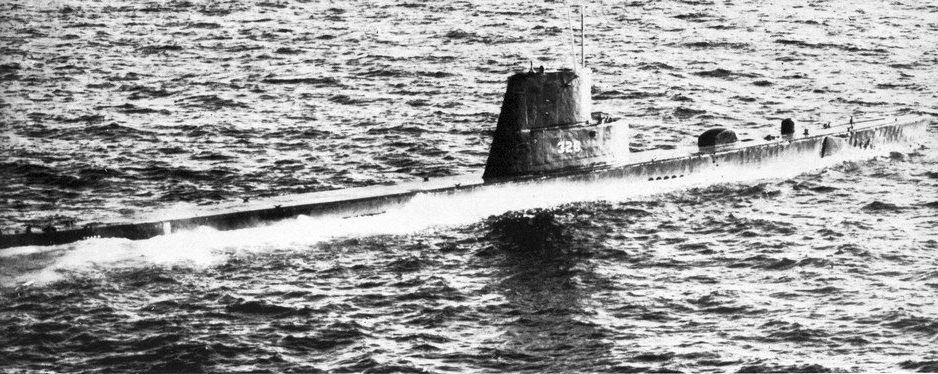 The U.S. Navy Balao-class submarine USS Charr (SS-328) underway in 1964.